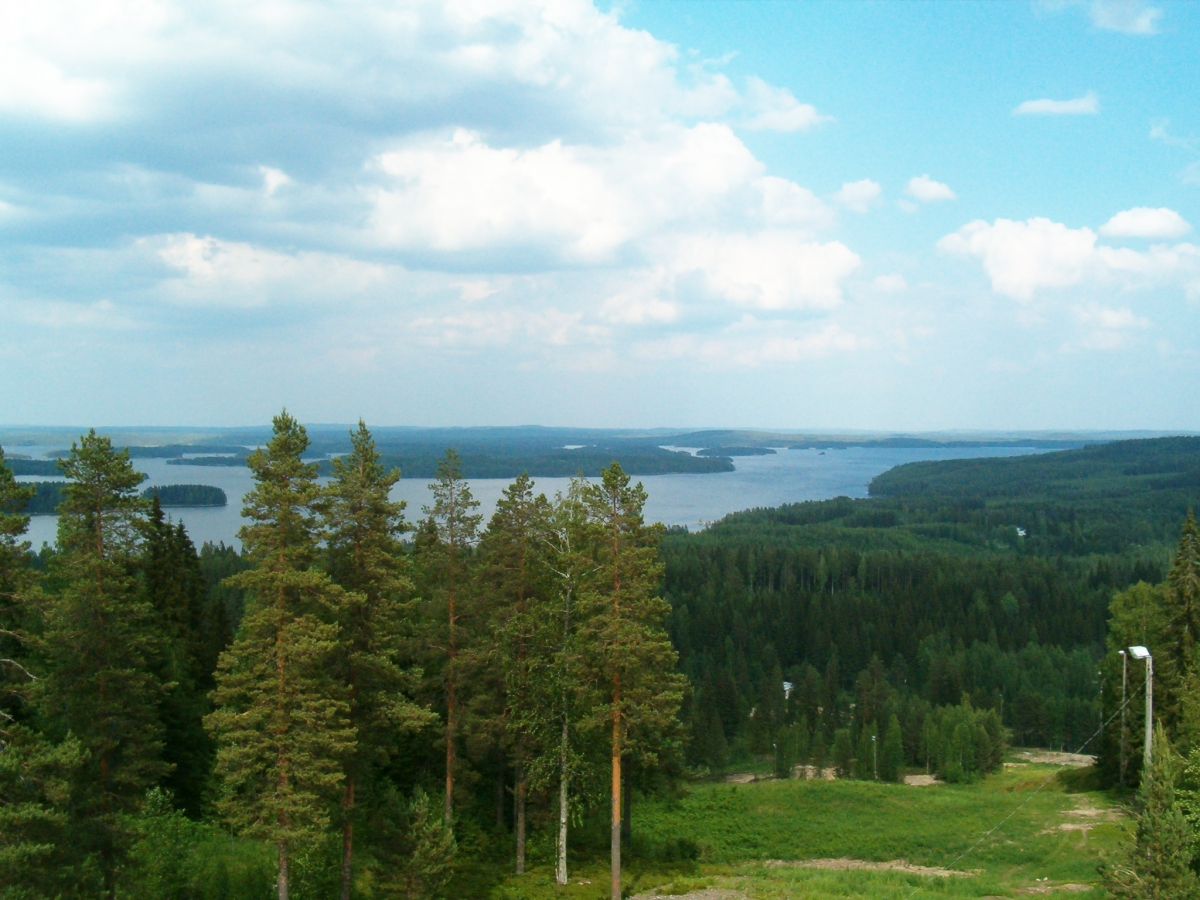 Lake Kermajärvi in Heinävesi, Finland, view from Pääskyvuori, some kilometers from the main village of Heinävesi.